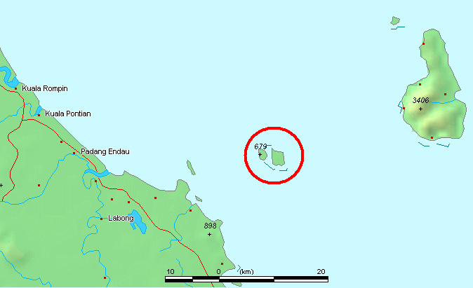 Sribuat, Malaysia